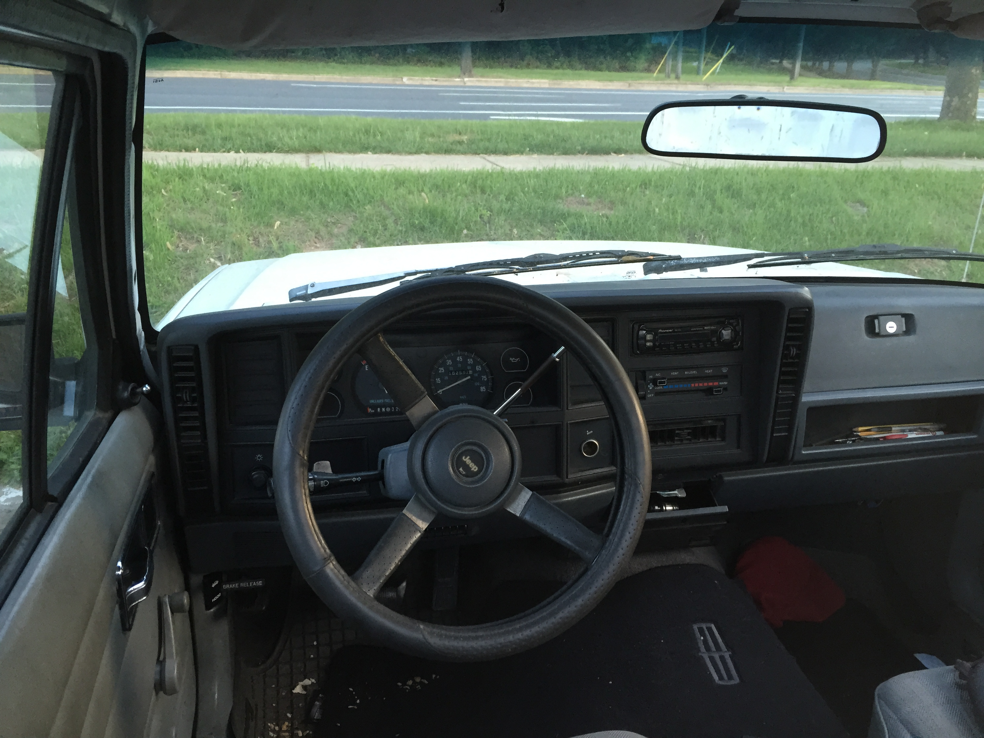 Interior of Jeep Comanche pickup truck. This base long-bed model is equipped with the 4.0 L High Output six-cylinder engine (available 1991-1992) and automatic transmission. Photographed in Maryland.